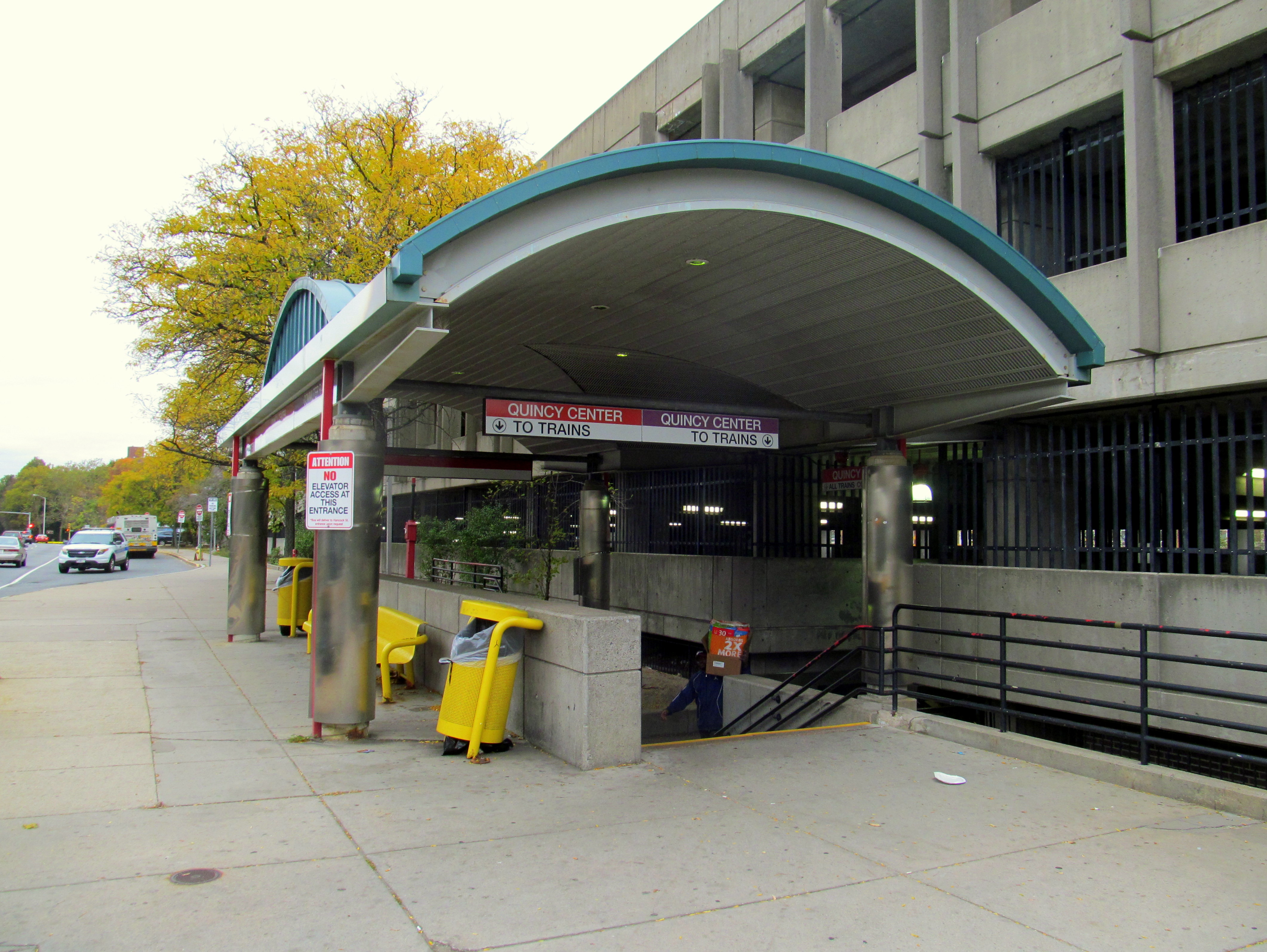 Burgin Parkway entrance to Quincy Center station in October 2015